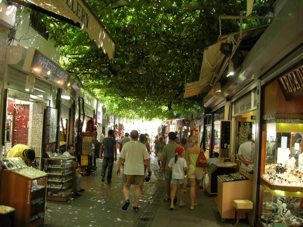 Market in Bodrum, Turkey; originally: Targ w Bodrum, Turcja